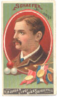 Jacob Schaefer, Sr. tobacco card (Jacob Schaefer was a dominant player of straight rail and balkline billiards in the 19th century)